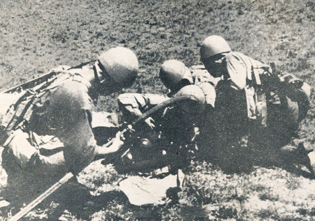 Imperial Japanese Army paratrooper are accessing their cargo container during the battle of Palembang. Two of the soldiers are setting up a Typ 100 flamethrower. February 13, 1942.